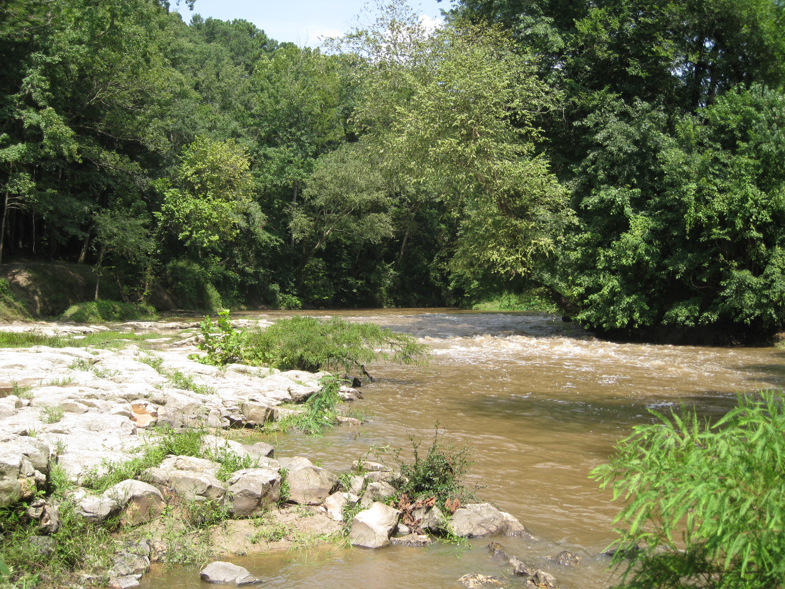 A full-on view of The Rocks and the rapids. You can see the raised campground off to the top-left of the picture.